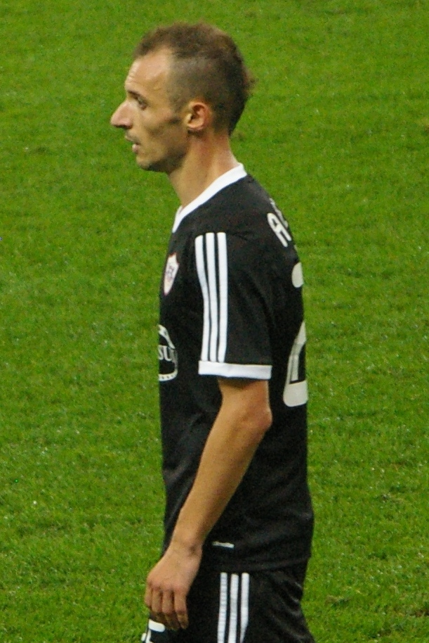 Ansi Agolli